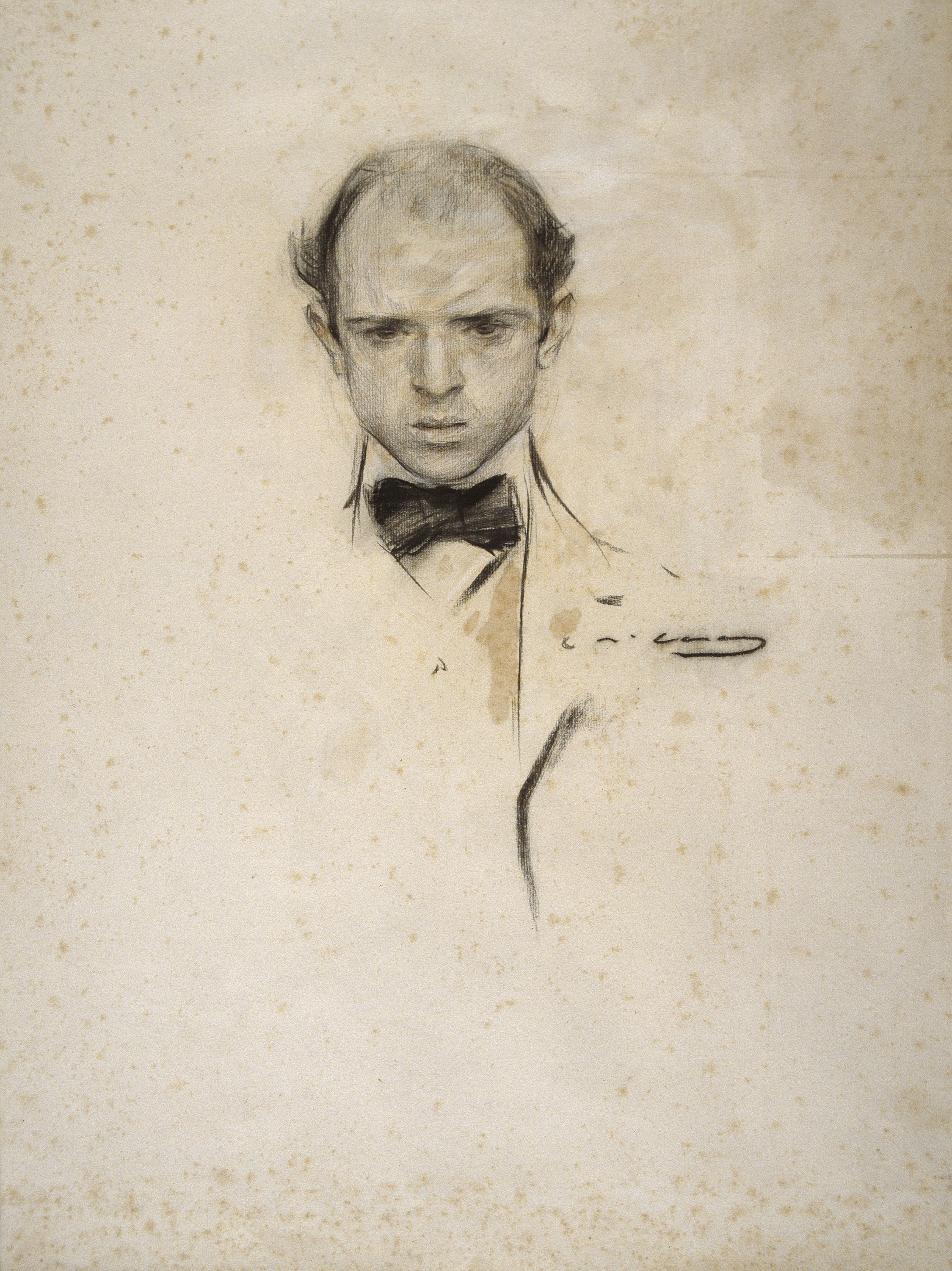 Portrait by Ramon Casas conserved at MNAC in Barcelona.